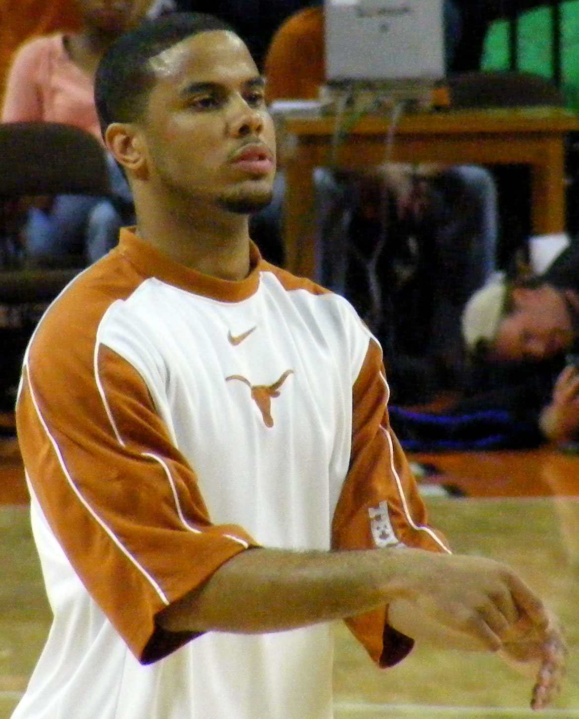 University of Texas men's basketball player D. J. Augustin.